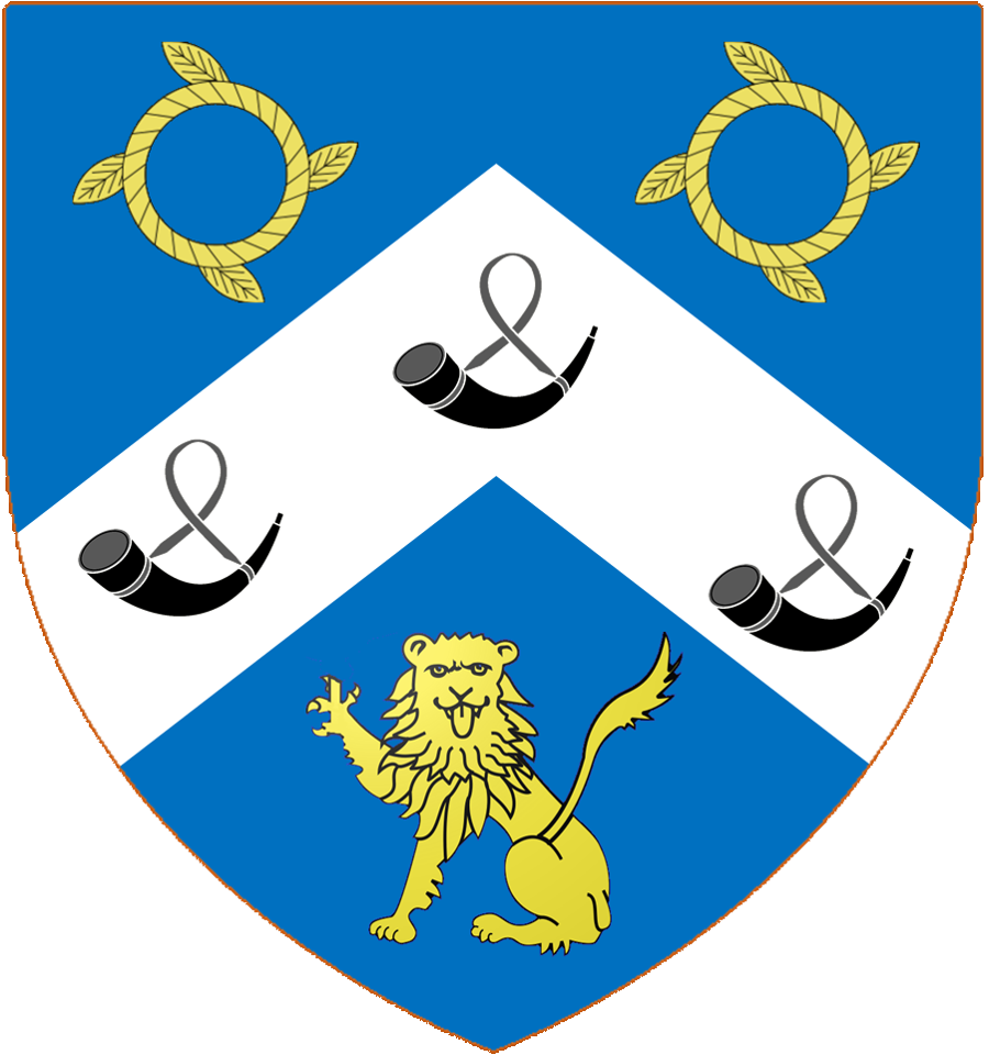 Shield of arms of The Earl Jowitt